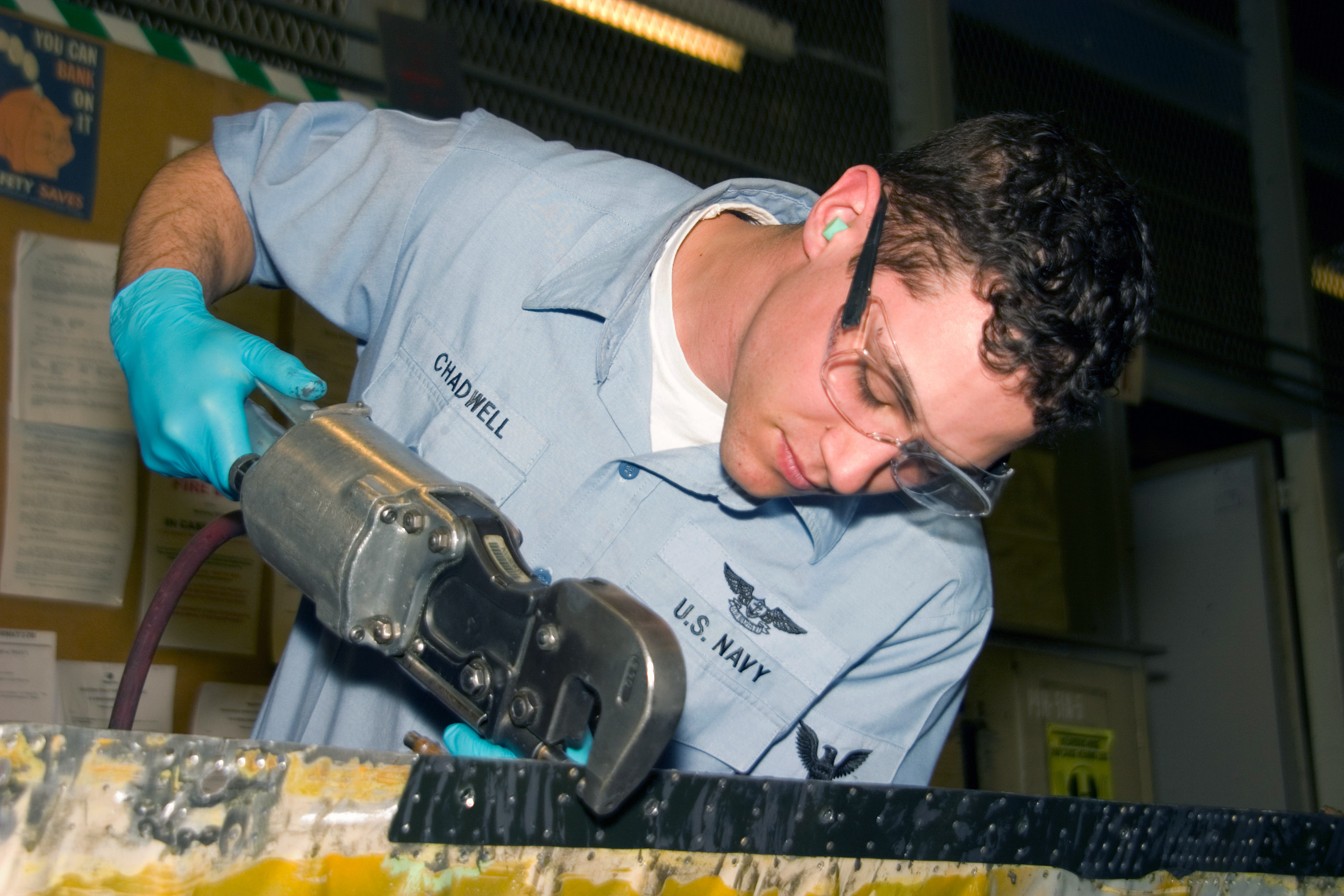 Whidbey Island, Wash. (Feb. 5, 2007) - Aviation Structural Mechanic 3rd Class Charles Chadwell presses a rivet into an access panel for an EA-6B Prowler at Fleet Readiness Center (FRC) Northwest aboard Naval Air Station Whidbey Island (NASWI). FRC Northwest is currently integrating depot-level repair capabilities into its work centers in order to save money and improve readiness for squadrons assigned to NASWI. U.S. Navy photo by Mass Communication Specialist 2nd Class (SW/AW) Jon Rasmussen (RELEASED)